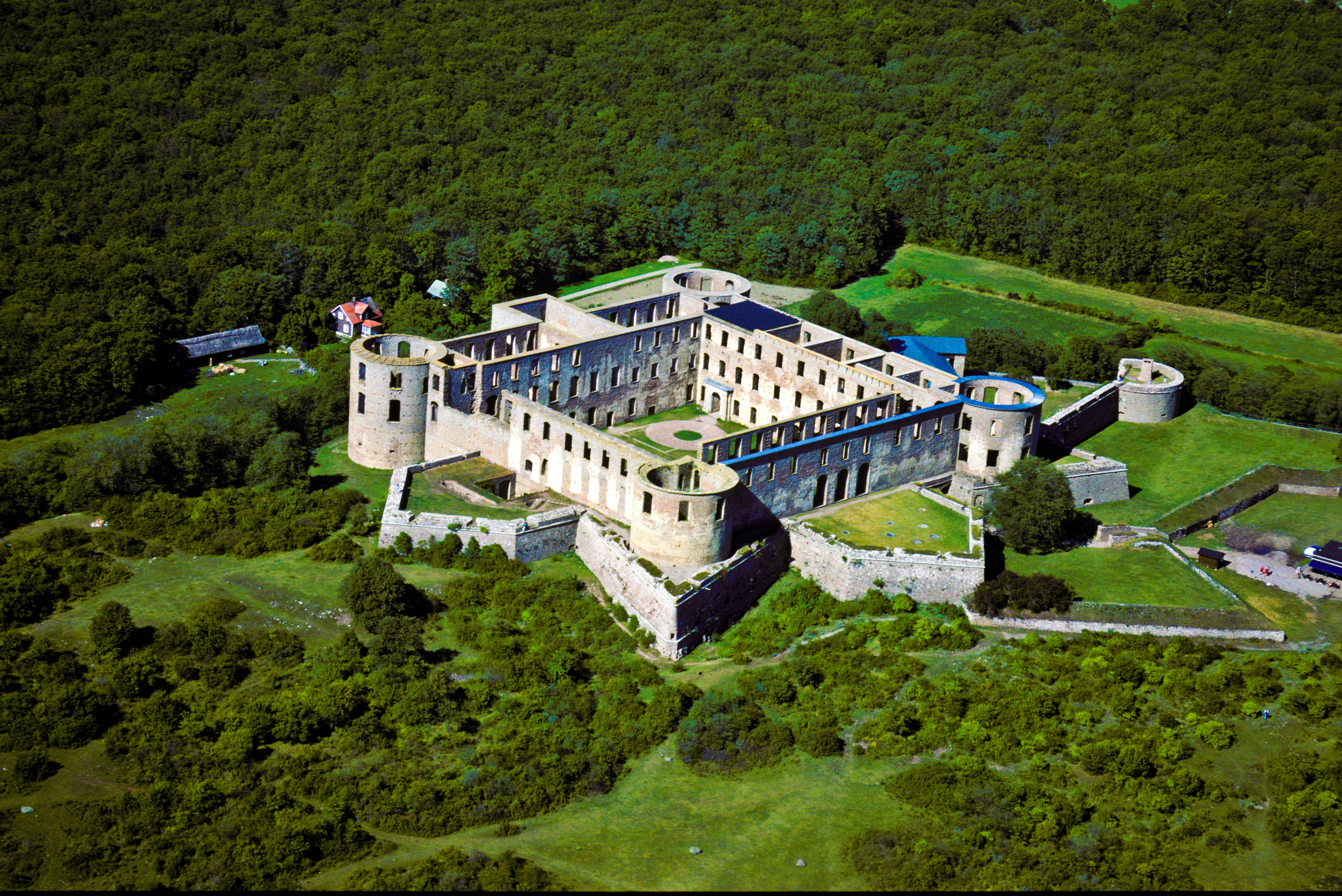 The ruined castle of Borgholm